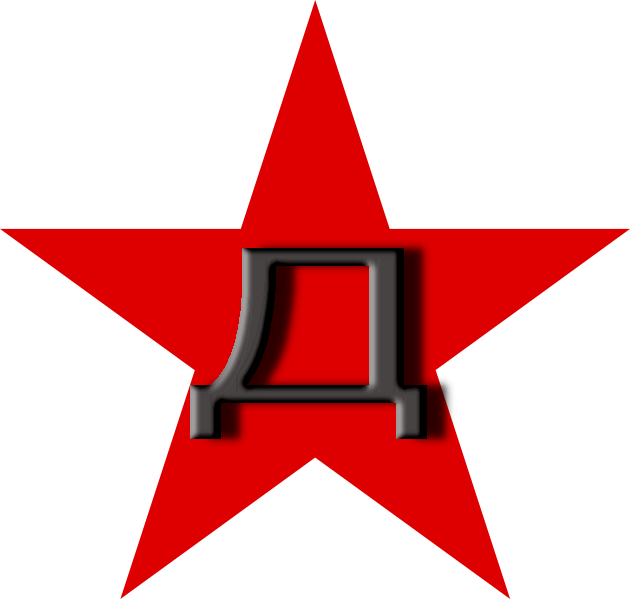 Пример символического мышления.